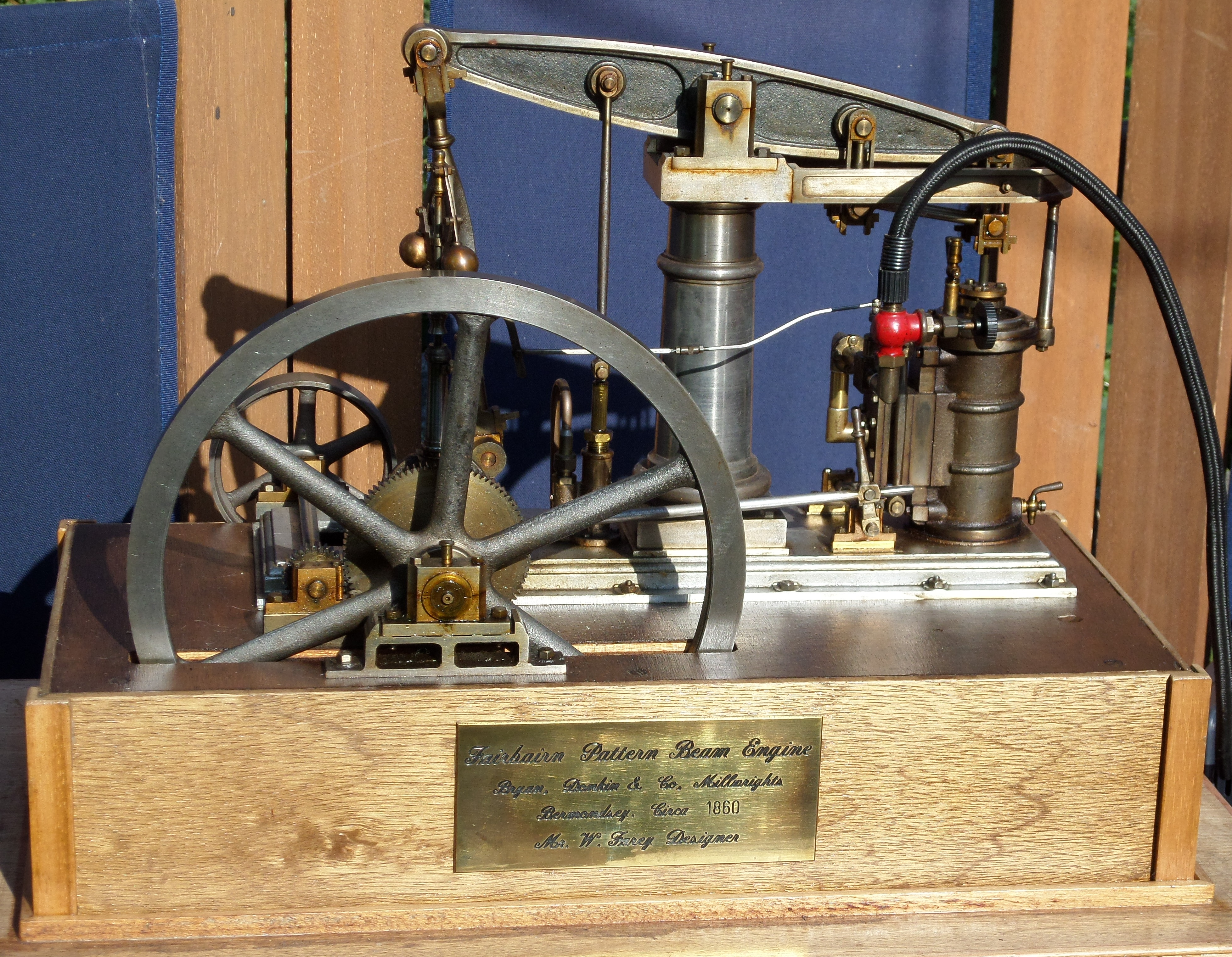 A model of a Fairbairn Pattern Beam Engine as manufactured by Bryan Donkin & Co., Bermondsey, London, Circa 1860.